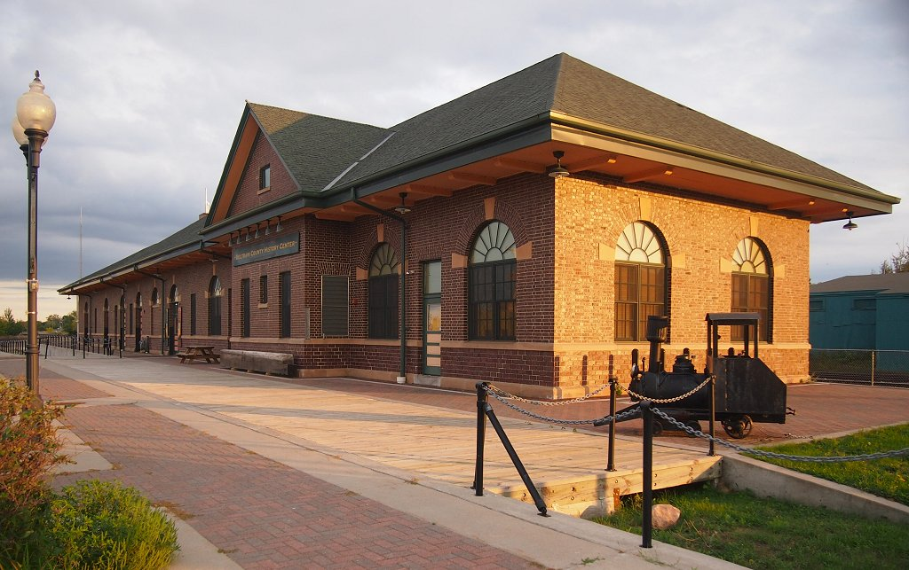 Great Northern Depot (now the Beltrami County History Center), Bemidji, Minnesota, USA. Viewed from the northwest during a brief period of golden hour light on a cloudy evening.